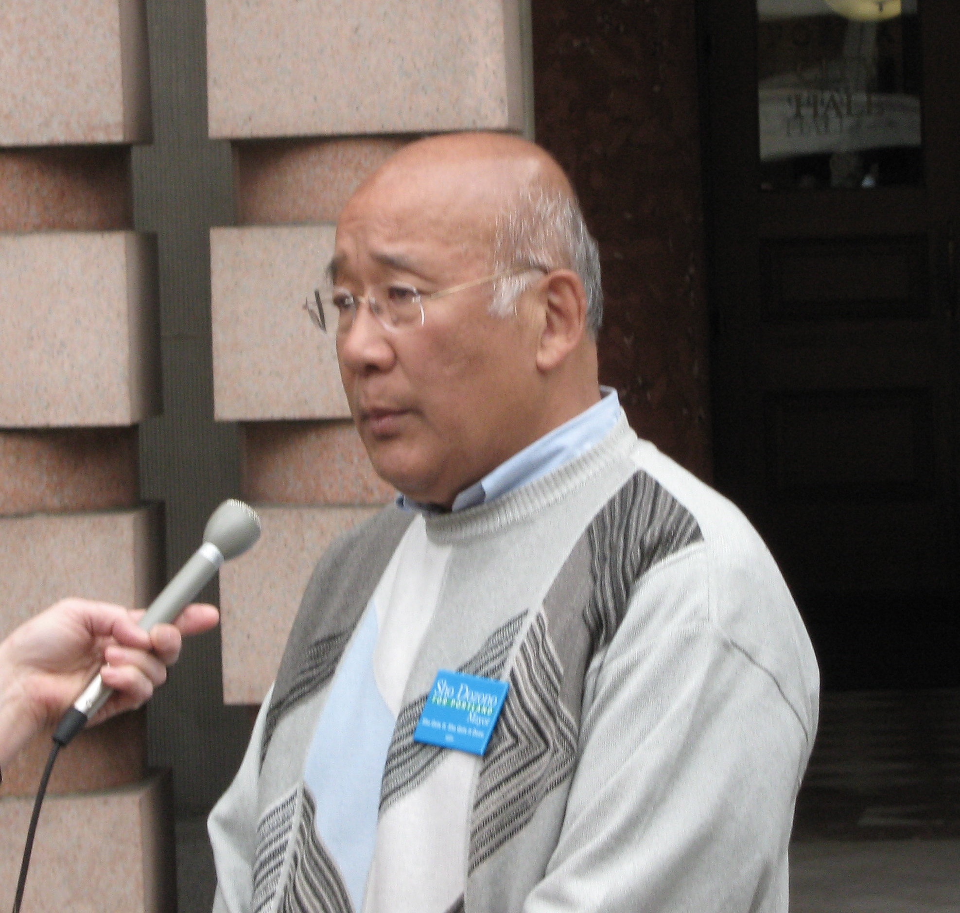 A different cropped version Image:ShoDozonoMay7Uncropped.JPG